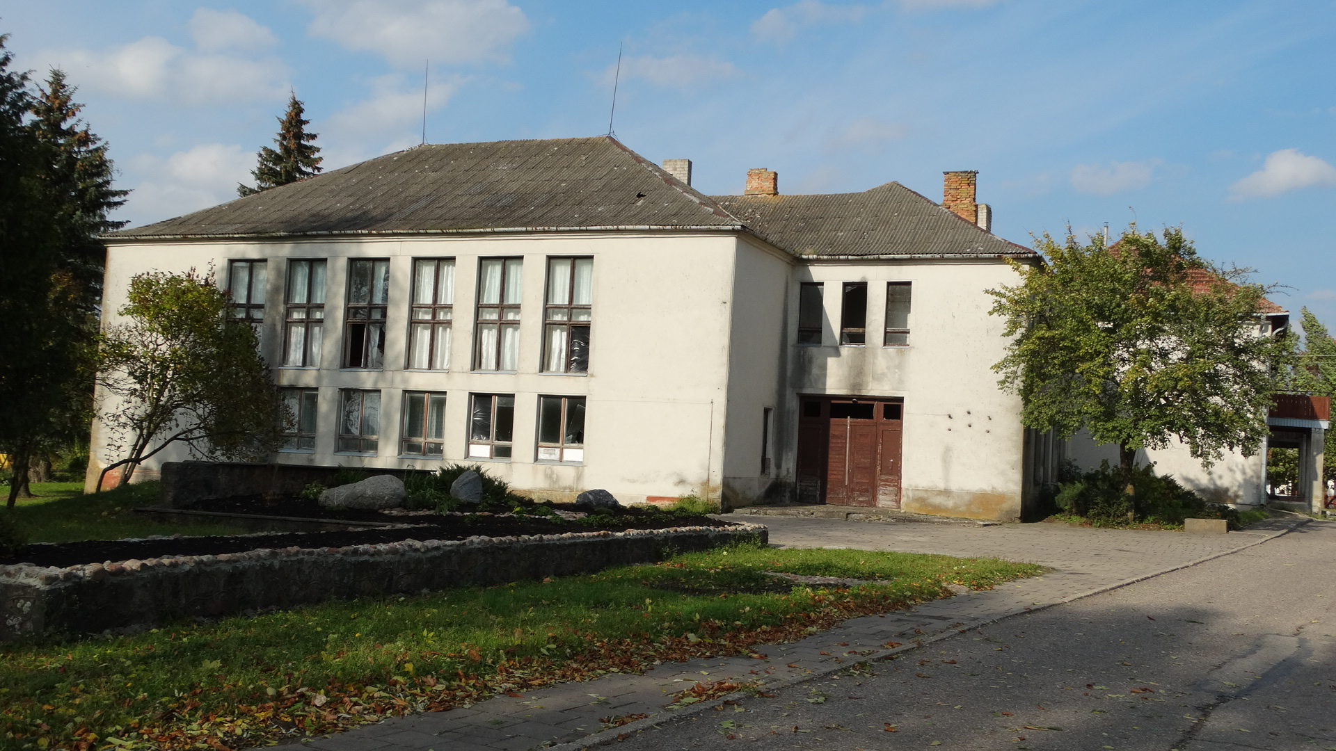 Verebiejai, Alytus district, Lithuania